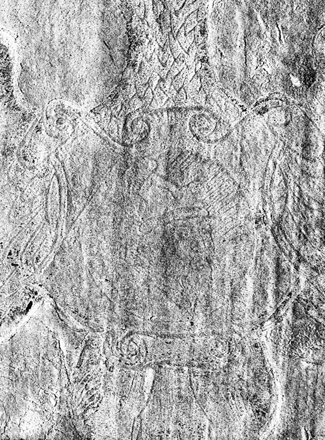 The only lifetime portrait of Ivan the Terrible, visualized with the help of multispectral images